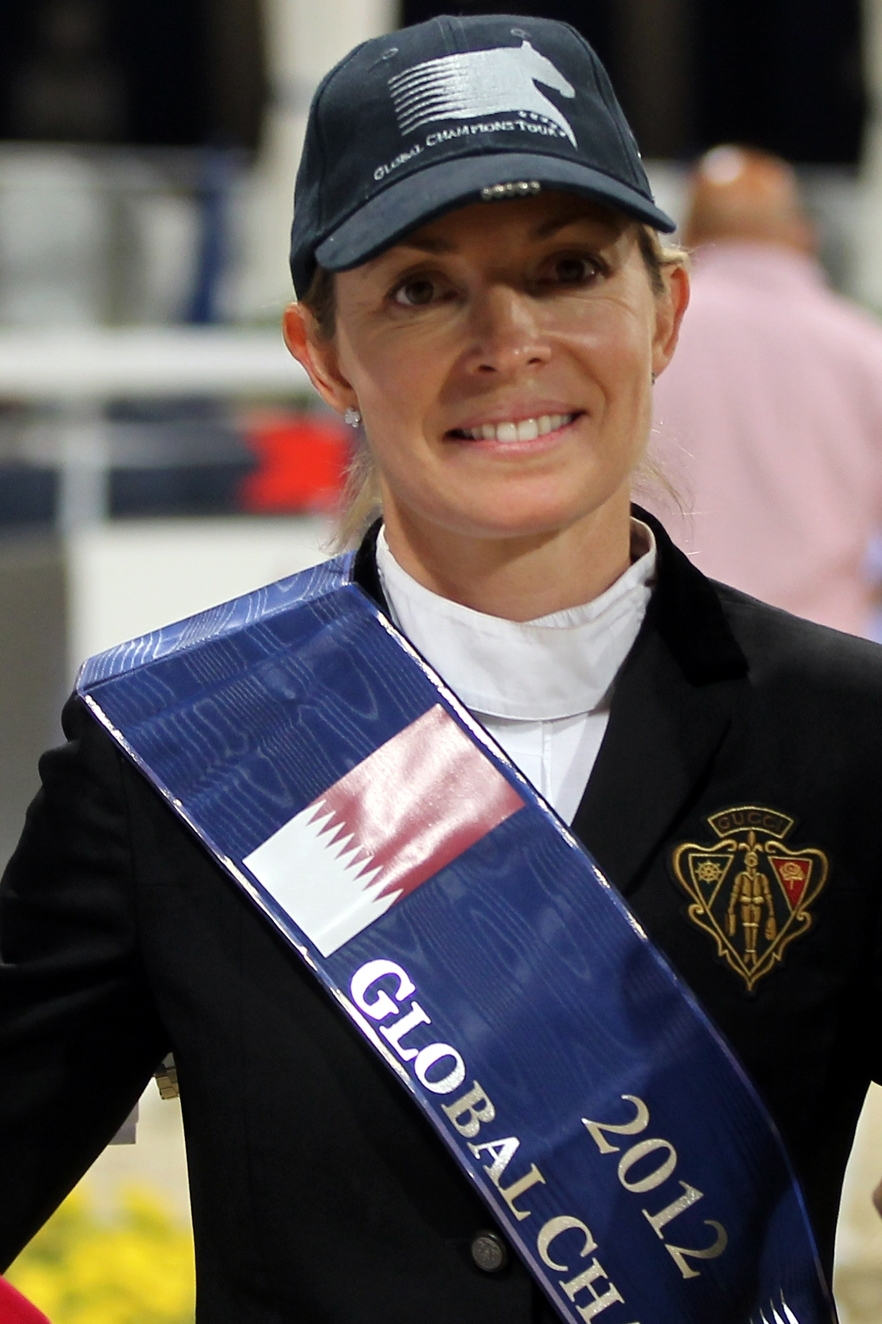 Australian Edwina Tops-Alexander with her horse Cevo Itot du Chateau during the Global Champions Tour opener in Doha.